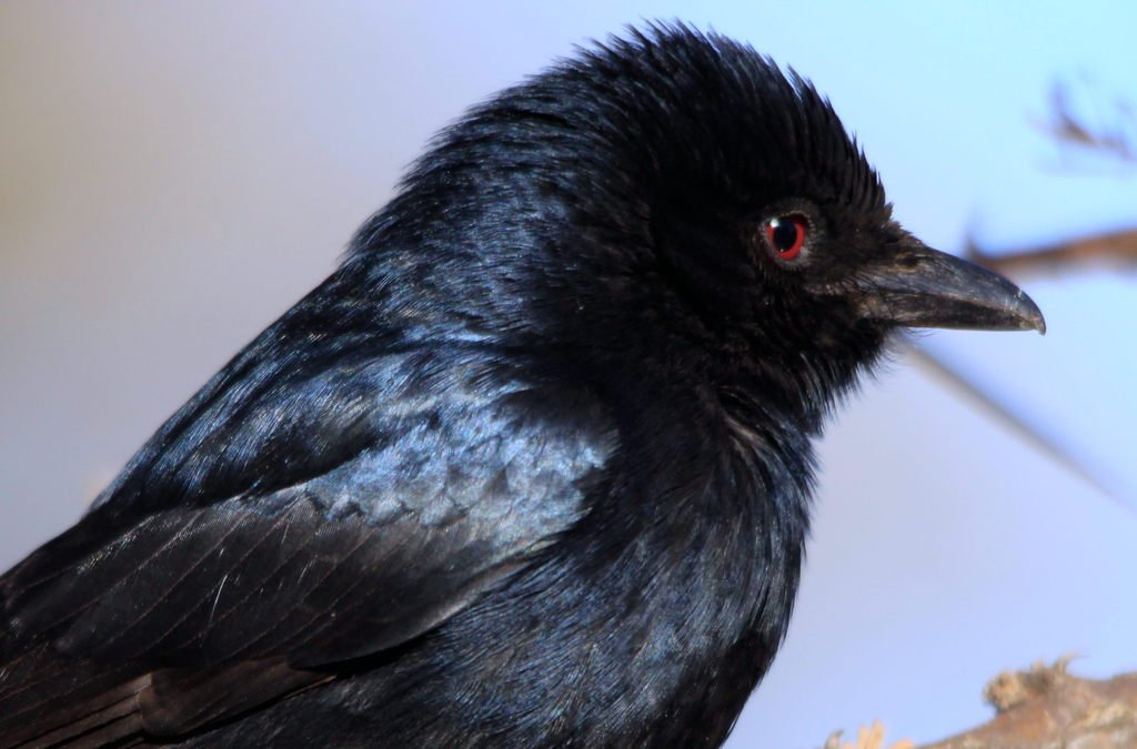 Fork-tailed Drongo, Dicrurus adsimilis at Marakele National Park, South Africa